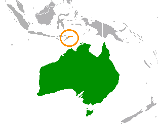 Map showing locations of Australia and East Timor